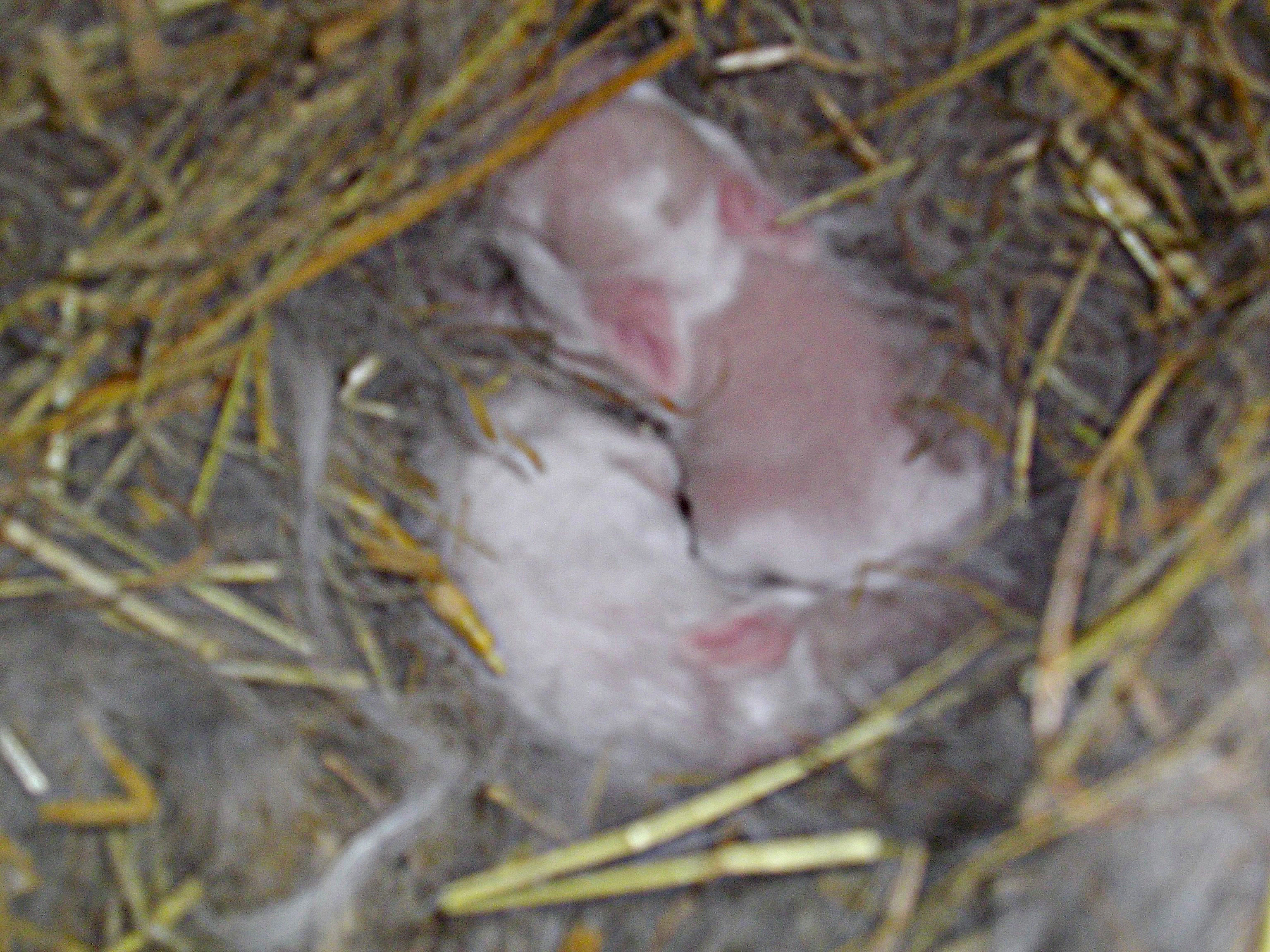 Satin dwarf rabbits - this is a word-by-word-translation of the french breed name